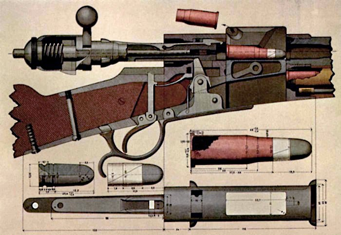 Cutaway diagram of a 1870s Swiss Vetterli rifle action